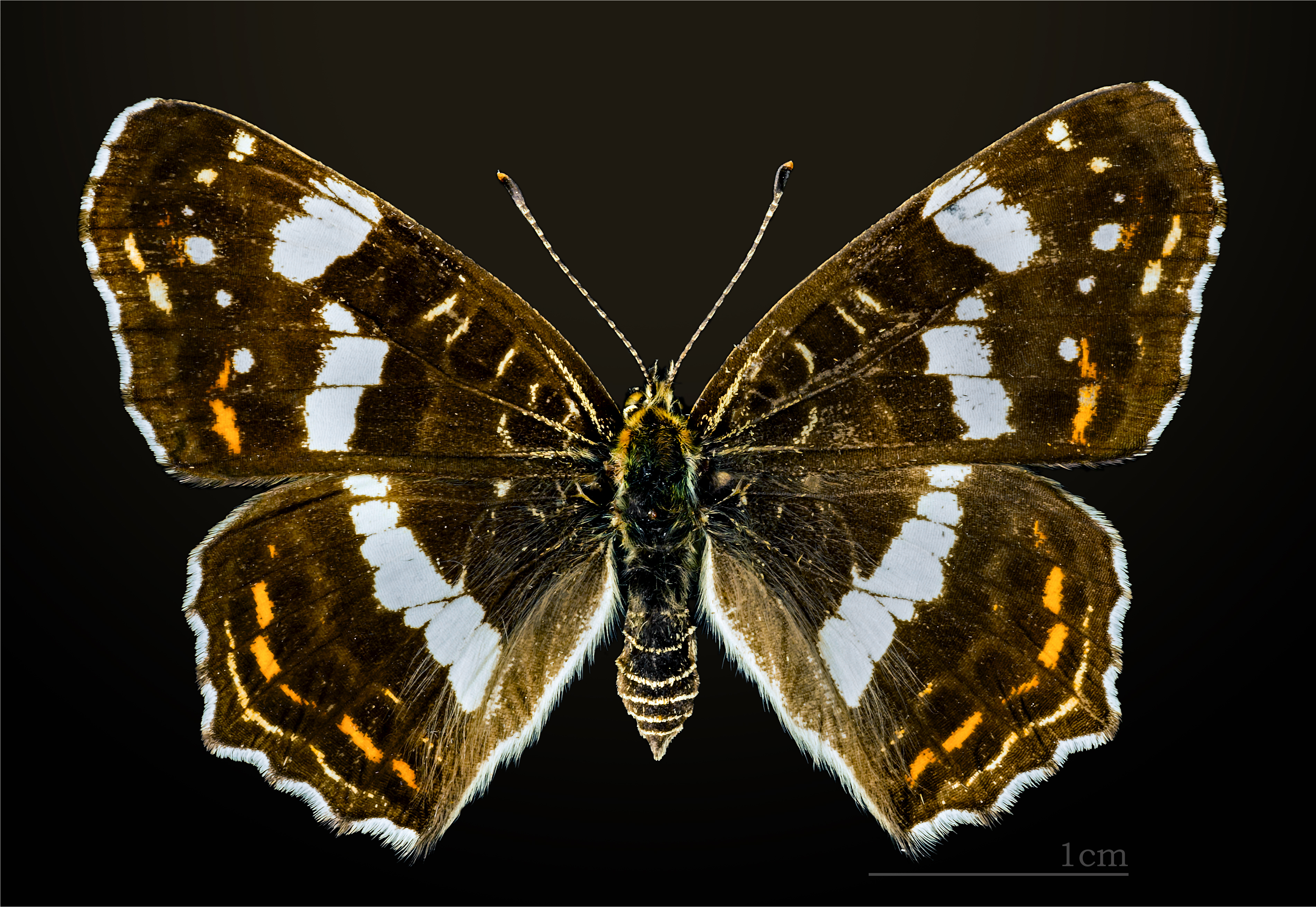 Map - Dorsal side - Generation (Summer), Araschnia levana f. prorsa